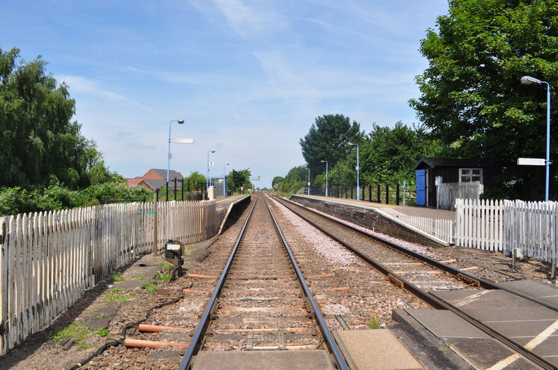 Manea Railway Station, near to Manea, Cambridgeshire, Great Britain. Manea is 9� miles west of Ely and the only survivor of the four stations that once served fenland communities between Ely and March. Historically the main significance of the station was its agricultural traffic. During the Beeching era, Doctor Beeching himself refused to close Manea station, due to "the acute social hardship this would cause". Mondays to Saturdays, there are two daily trains in each direction operated by CrossCountry. There are two eastbound services to Cambridge and Stansted Airport, with two westbound services to Peterborough, Leicester and Birmingham New Street. There is no Sunday service.